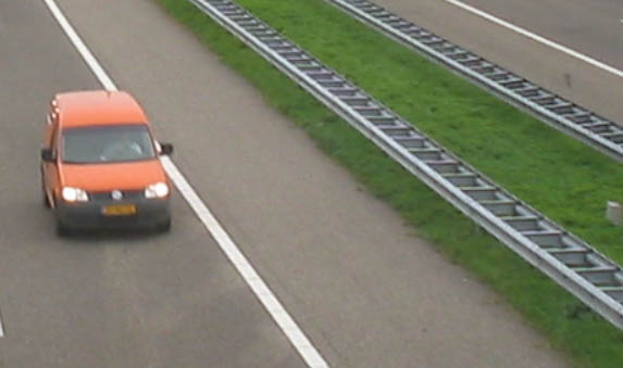 Guard rail in the median strip of a motorway.